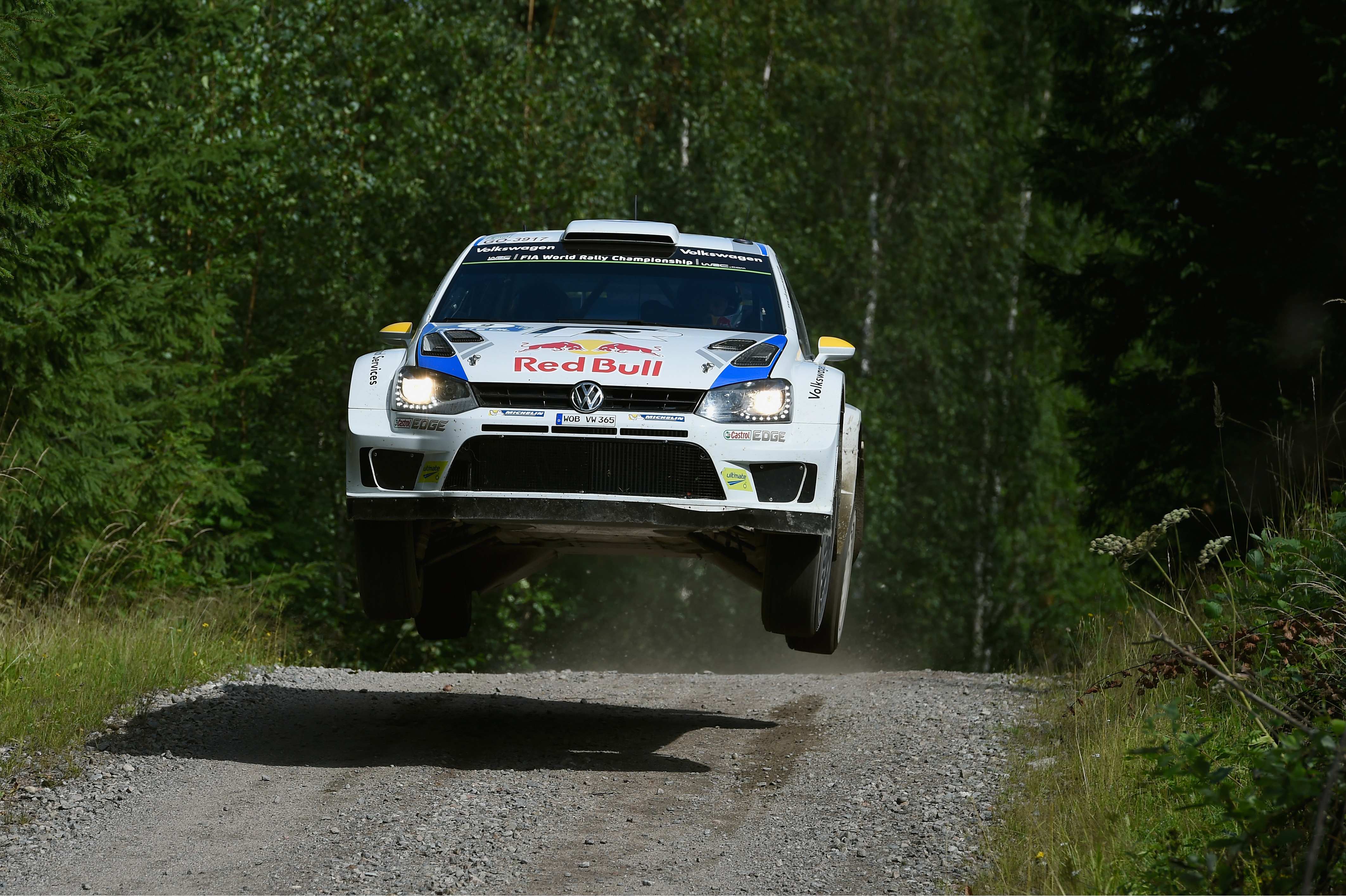 Andreas Mikkelsen (NOR) and co-driver Ola Fløene (NOR) in their Volkswagen Polo R WRC at the 2014 Rally Finland.